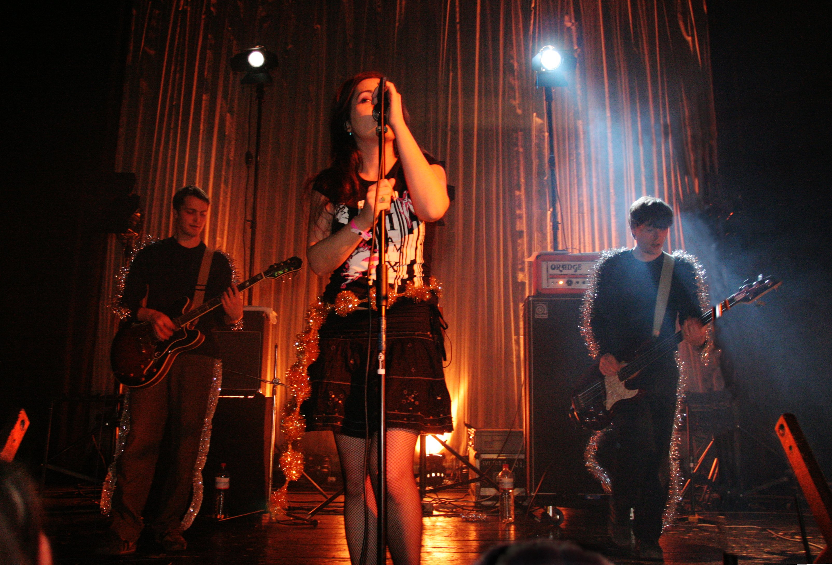 Tata Bojs concert in Prague club Delta